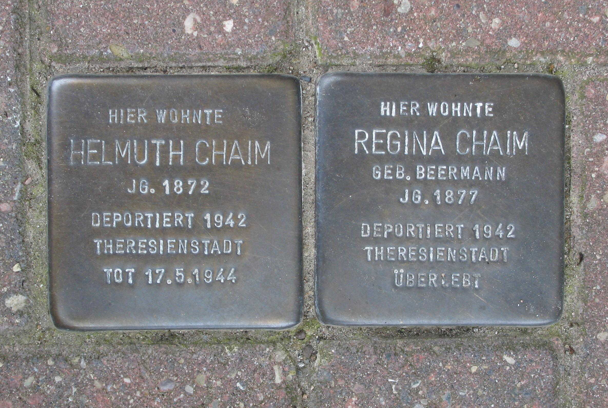 Stolpersteine in Joachimsthal in Brandenburg, Germany